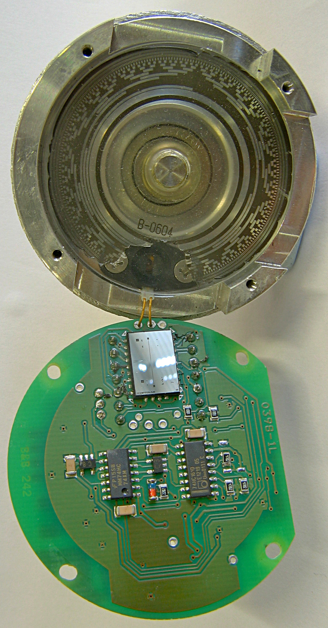 A Gray code absolute rotary encoder with 13 tracks. At the top can be seen the housing, interrupter disk, and light source; at the bottom can be seen the sensing element (reflective, marked 'OPTOLAB') and support components. This encoder was removed from a machine after water ingress caused the gray code tracks to lift off.